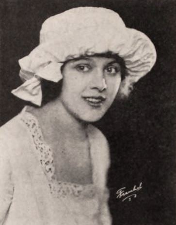 Actress Myrtle Lind, on page 60 of the November 26, 1921 Exhibitors Herald.